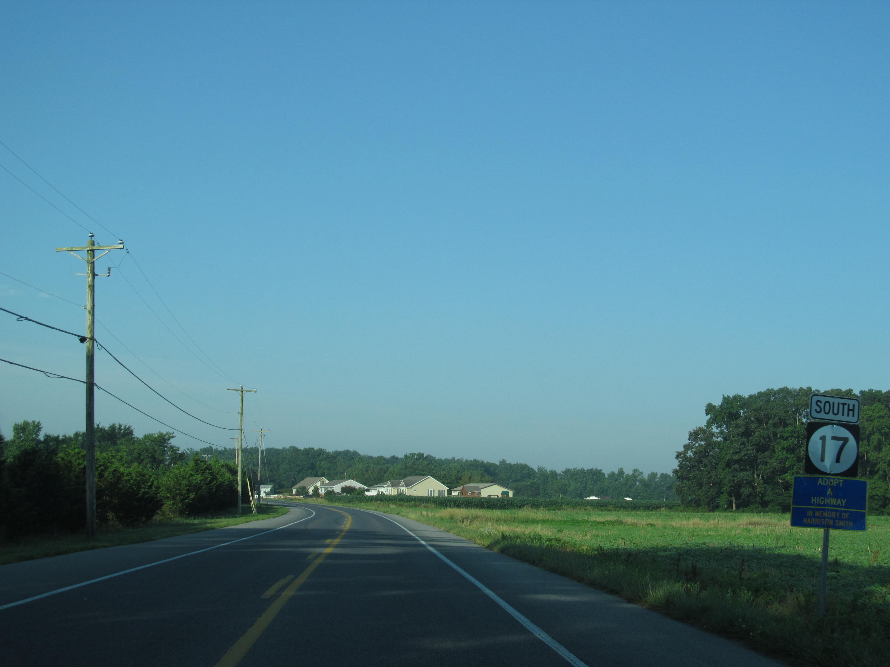 Southbound Delaware Route 17 (Roxana Road) past the intersection with Gum Road southwest of Roxana.